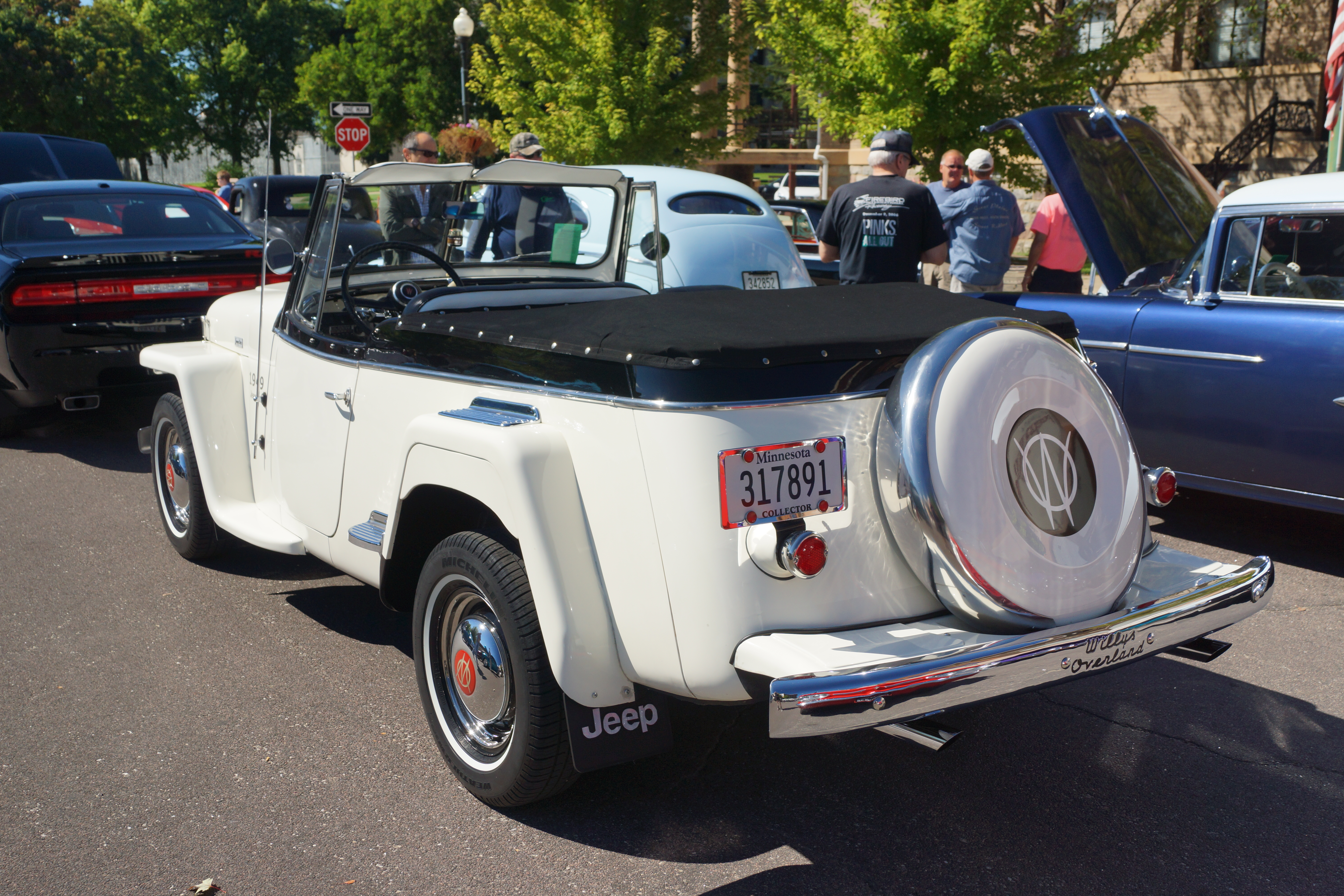 37th ANNIVERSARY VINTIQUES ROD RUN & KAMP OUT Show & Shine Uptown Watertown Watertown, South Dakota September 2016 Click here for more car pictures at my Flickr site.